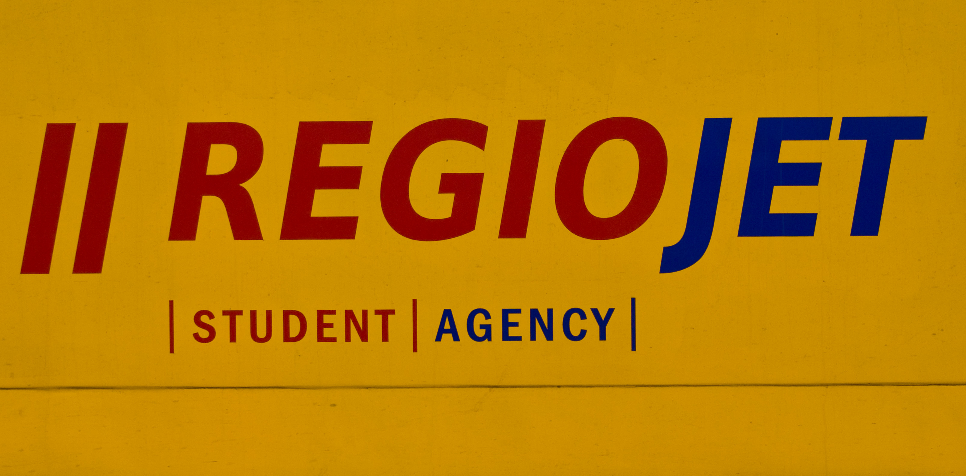 Logo of the Czech railway operator RegioJet